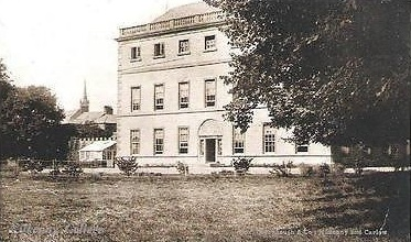 Old postcard of Kilkenny College